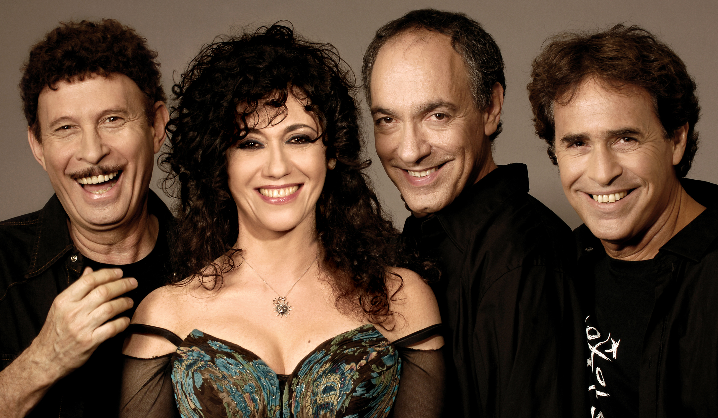 Israeli popular vocal group "Hakol 'Over, Habibi"